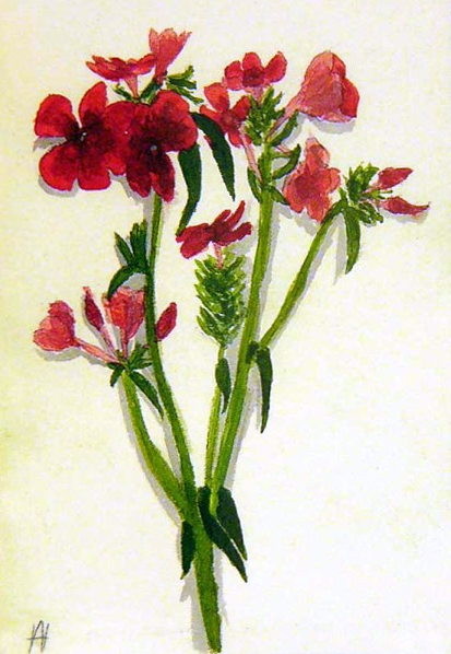 Drawing of Grand Duchess Anastasia to her father.